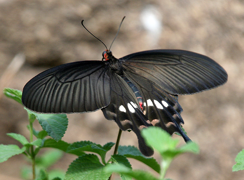 Common Rose Atrophaneura aristolochiae at Lotus Pond, Hyderabad, India.